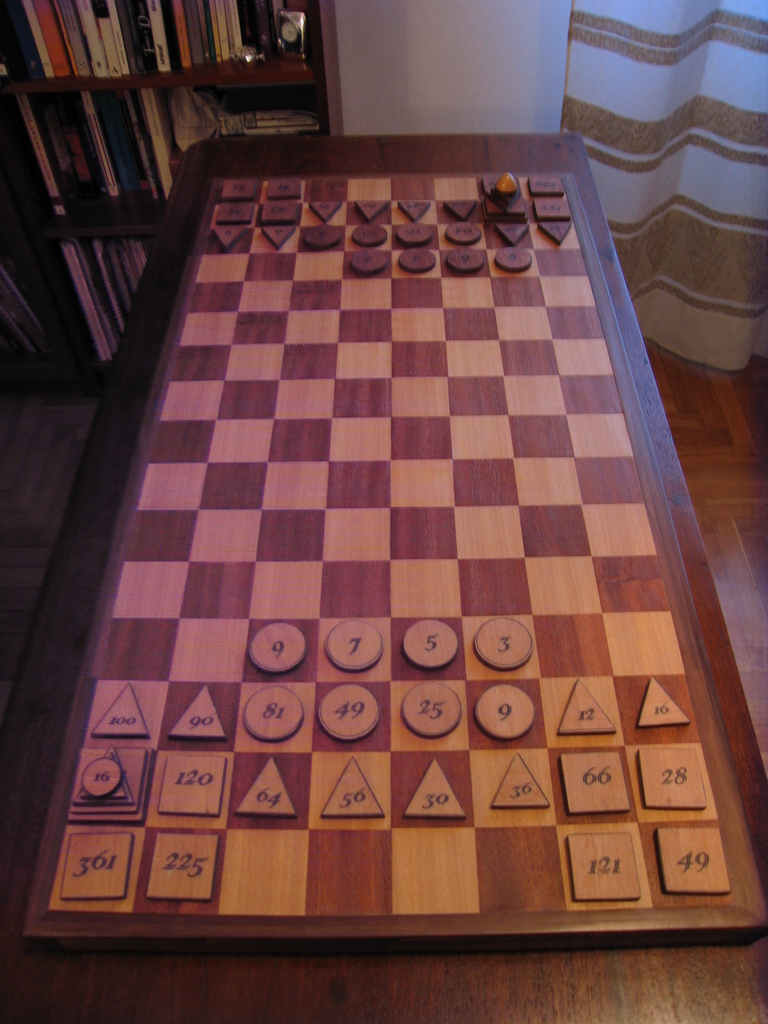 Photo of homemade Rithmomachy board game set.